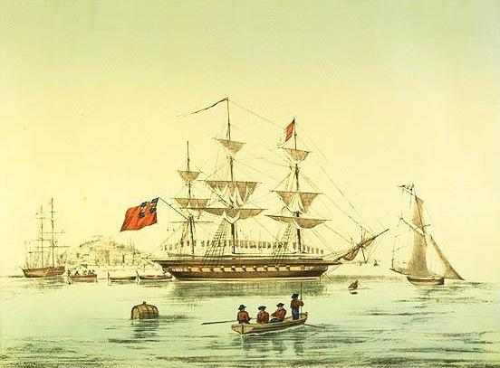 The English corvette Fly off Sydney (Australia)